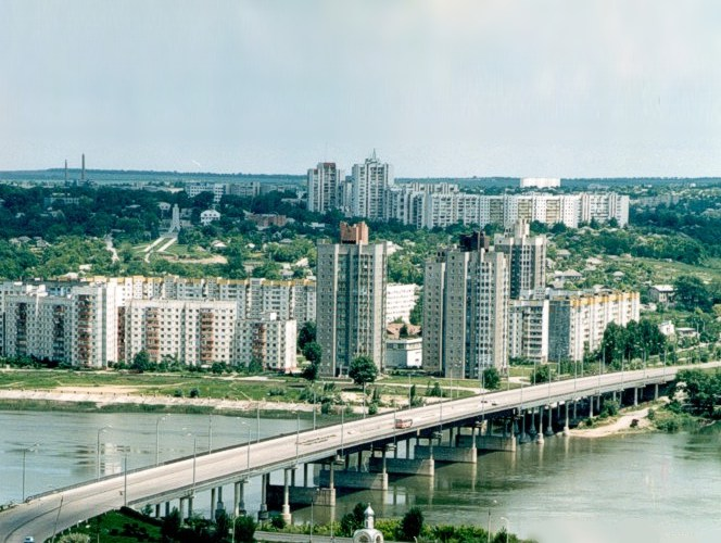 Dniester river and part of the city of Rybnitsa in northern Transnistria.